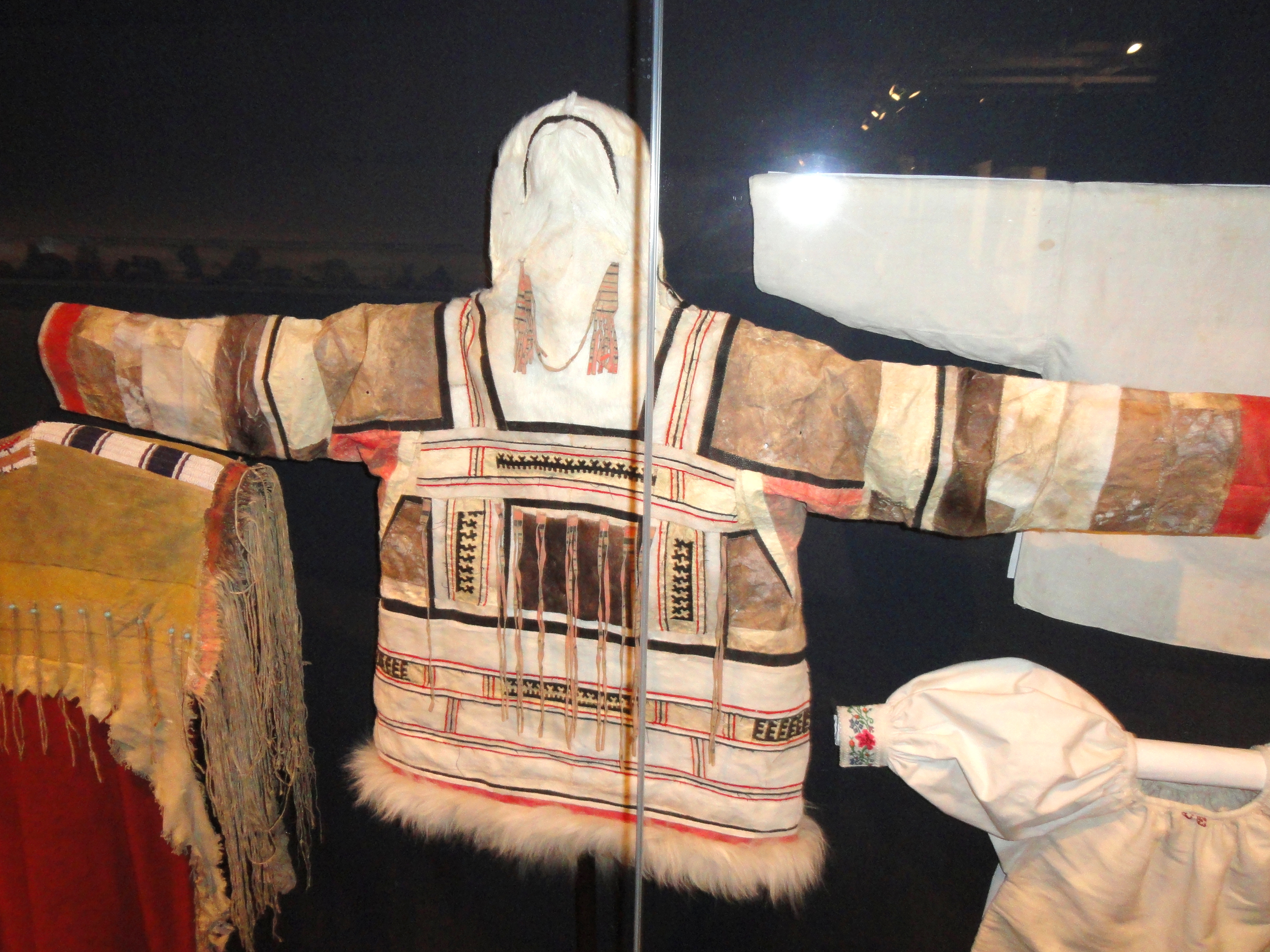 Clothing exhibit in the Museum of Cultures, Helsinki, Finland.